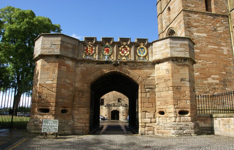 Linlithgow Palace, Scotland